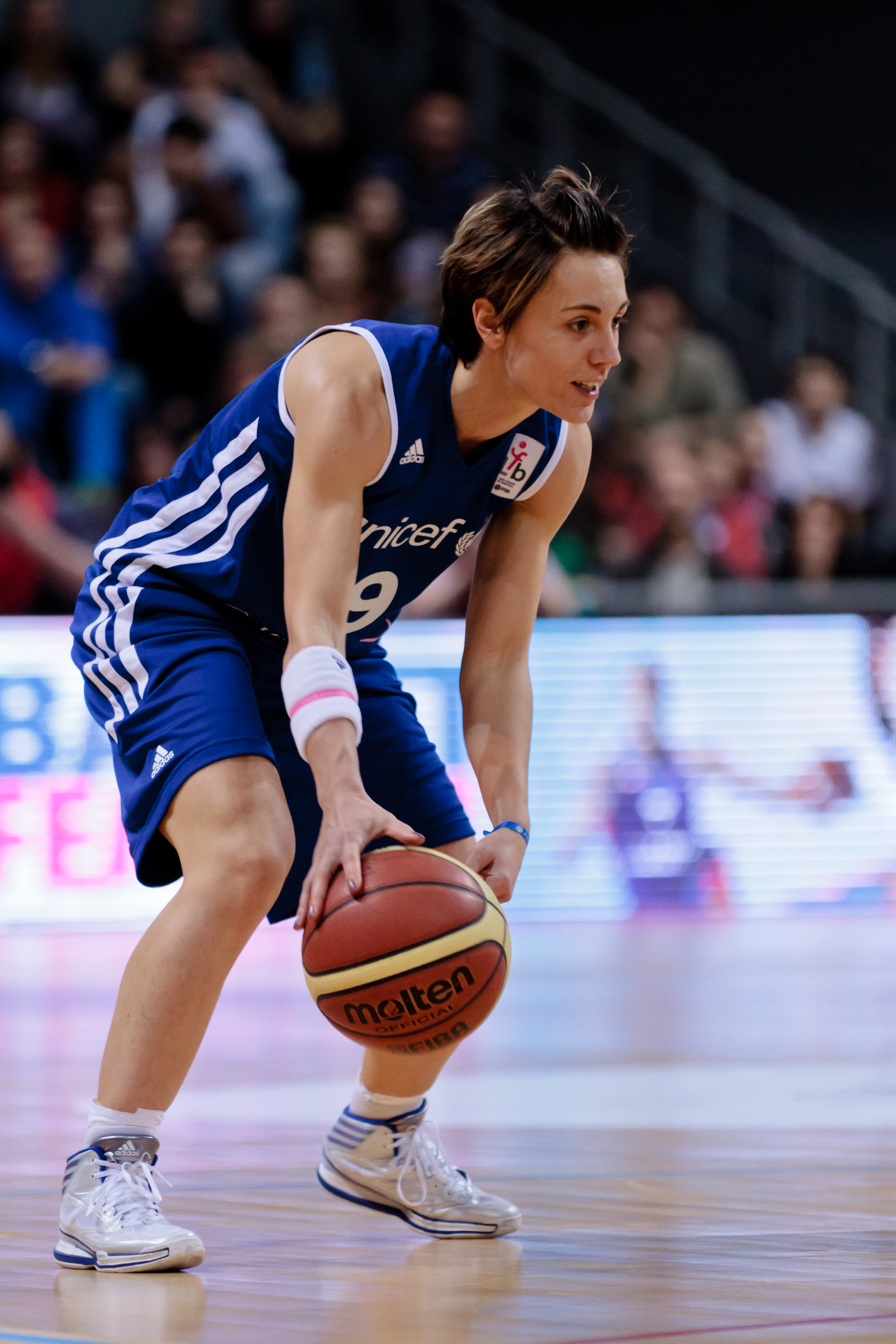 Céline Dumerc, during exhibition game Championnes de cœur in Toulouse.